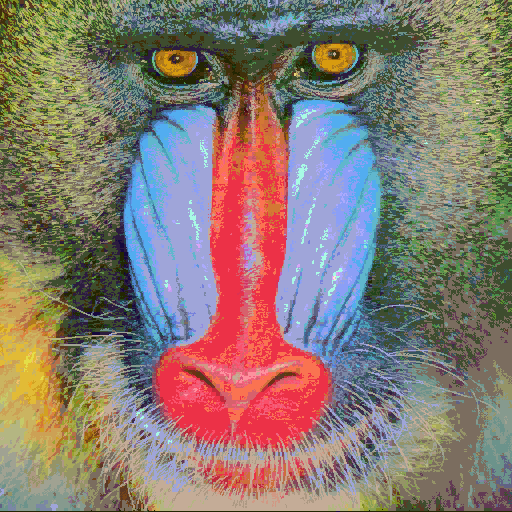 CCC compressed example image of a Mandrill at 2-bits per pixel.